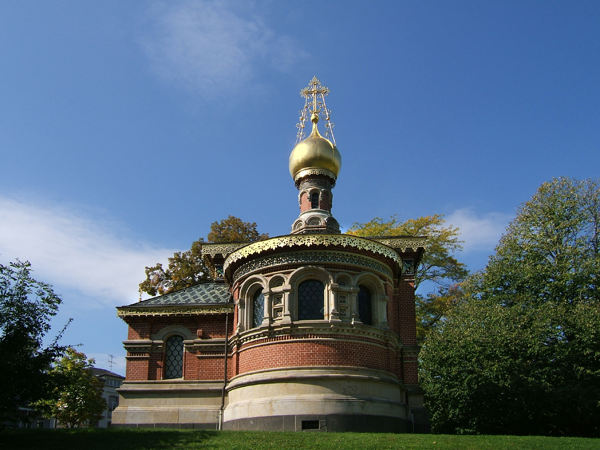 The Russian Chapel in Bad Homburg vor der Höhe, Germany